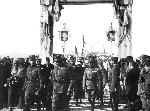 Arrival of Crown Prince George (later George II of Greece) in Smyrna (Izmir), 1921Türkçe: Veliaht Prens Georgios'un (sonra Kral II. Georgios) İzmir'e varışı, 1921